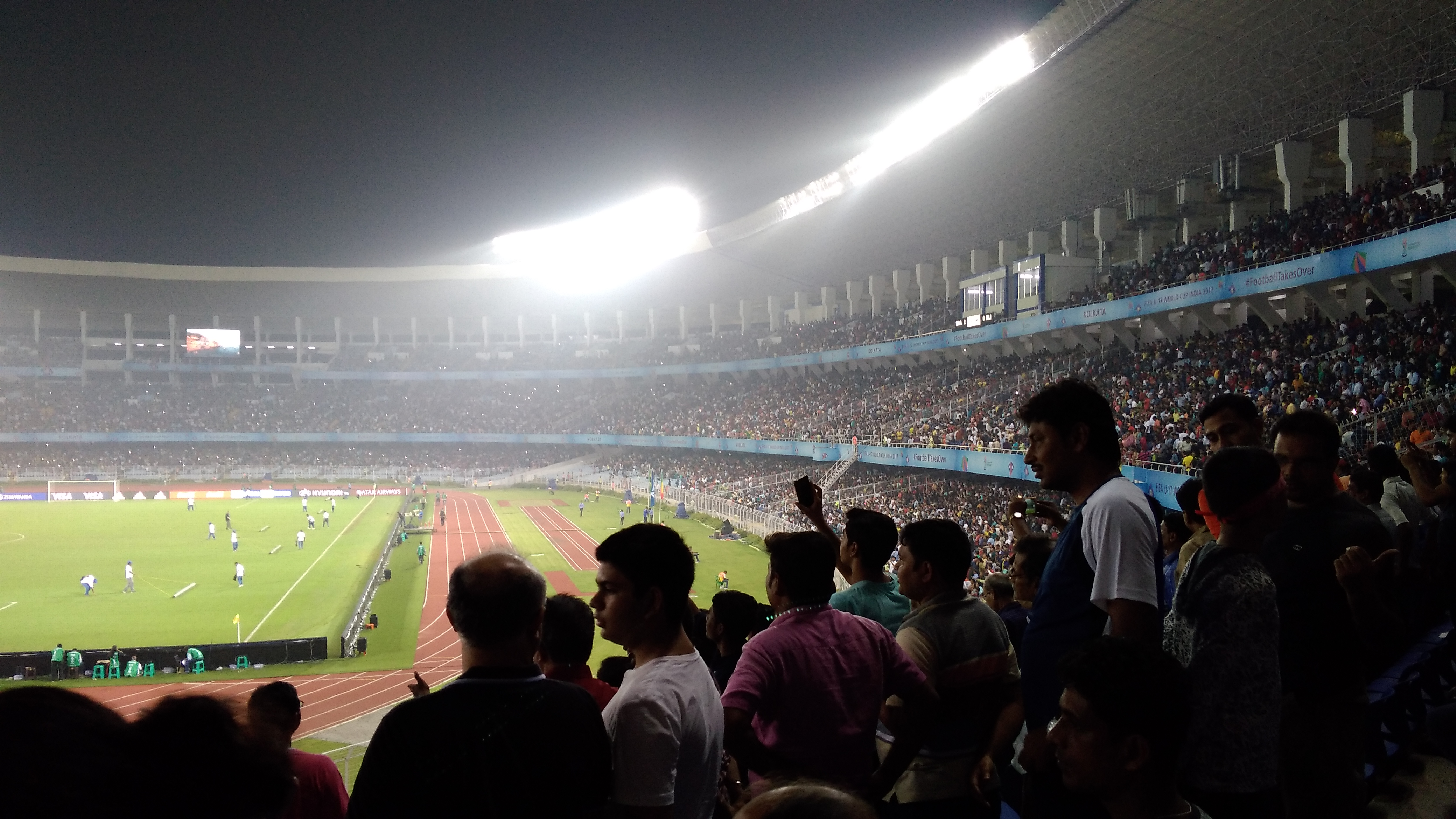 Salt Lake Stadium during the FIFA U-17 World Cup India 2017 Final.